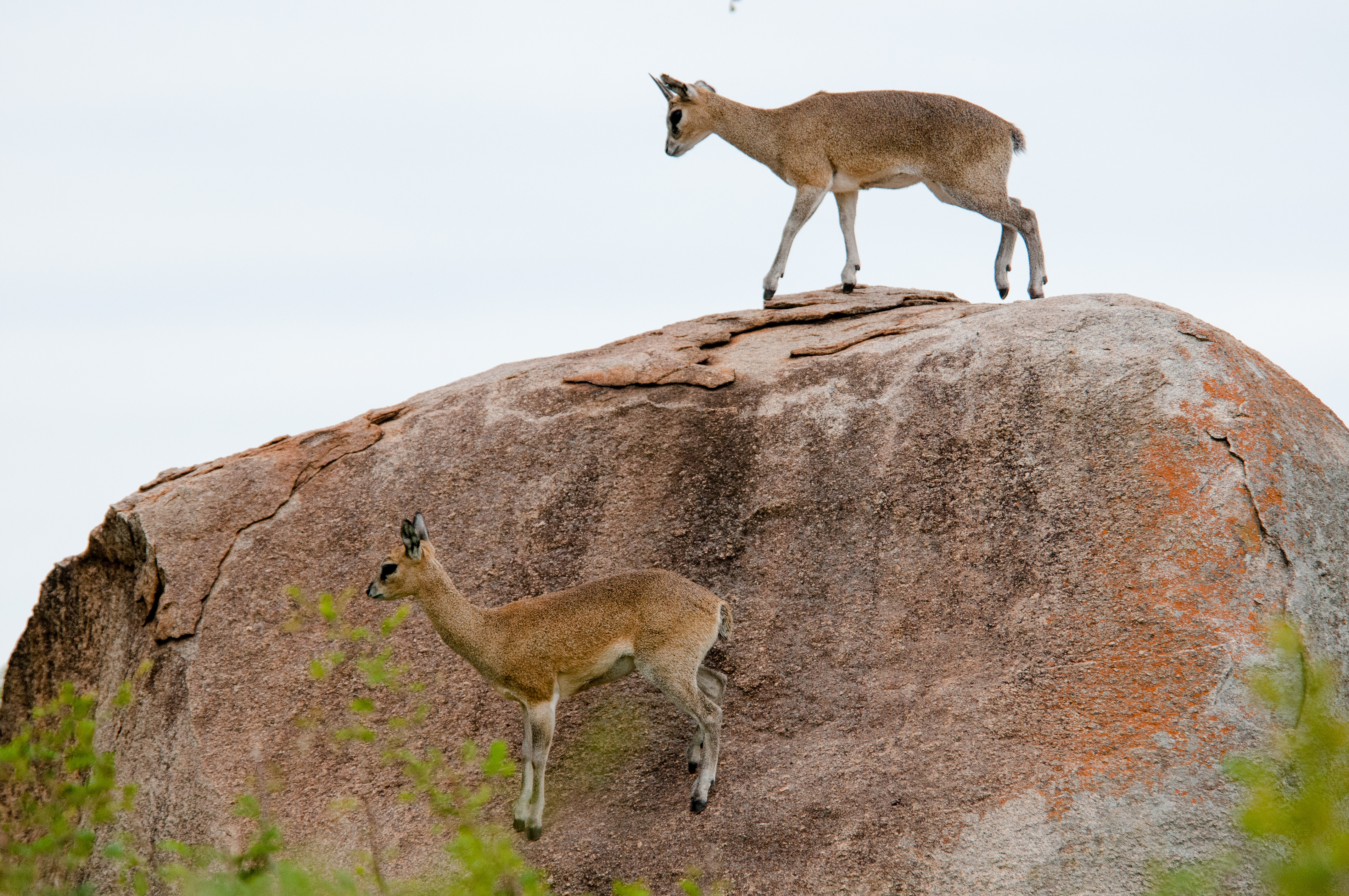 "Klipspringers doing what klipspringers do"Klipspringer pair beside the Napi road south of Skukuza, Kruger National Park, Mpumalanga, South Africa